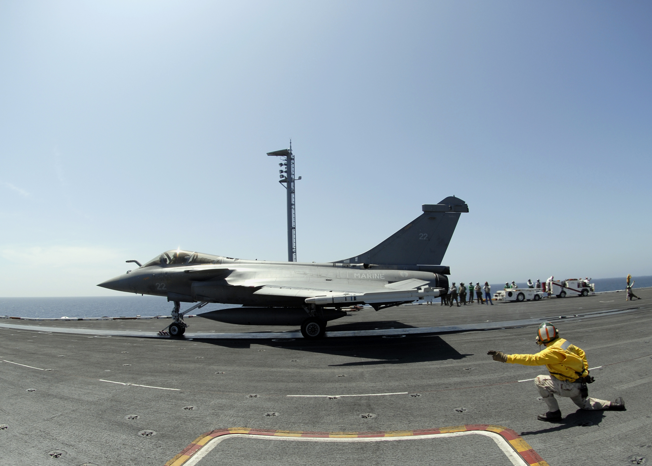 ATLANTIC OCEAN (July 20, 2008) A French F-2 Rafale fighter launches off the flight deck during combined French and American carrier qualifications aboard the aircraft carrier USS Theodore Roosevelt (CVN 71). This event marks the first integrated U.S. and French carrier qualifications aboard a U.S. aircraft carrier. The Theodore Roosevelt Carrier Strike Group is participating in Joint Task Force Exercise "Operation Brimstone" off the Atlantic coast until the end of July.U.S. Navy photo by Mass Communication Specialist 2nd Class John M. Stratton (Released)